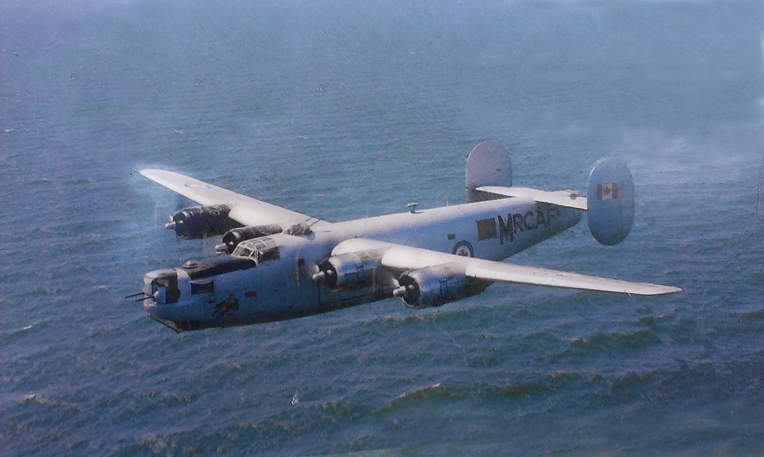 A picture on an information plaque at the 1943 Saint-Donat Liberator III (B-24D) crash site displaying a similar Liberator GR.VIII (B-24J) in RCAF service.